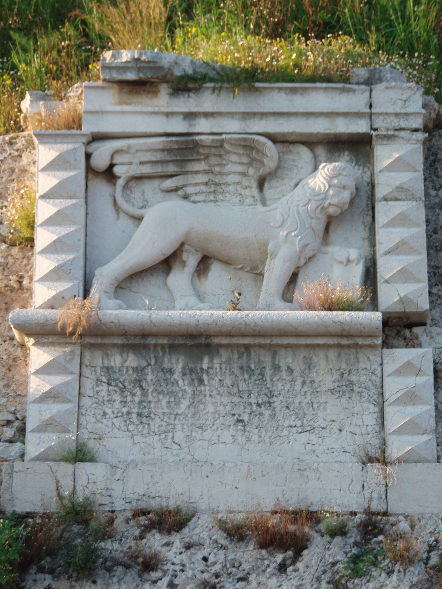 The Lion of St Mark, symbol of the Venetian Republic, on the walls of the New Fortress of Corfu, Greece.